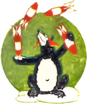 Emblem of the 470th Bombardment Squadron (World War II)